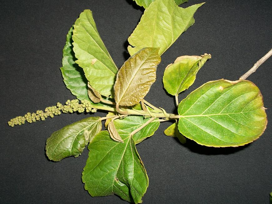 Croton sylvaticus specimen from Athlone Park, Amanzimtoti, South Africa.